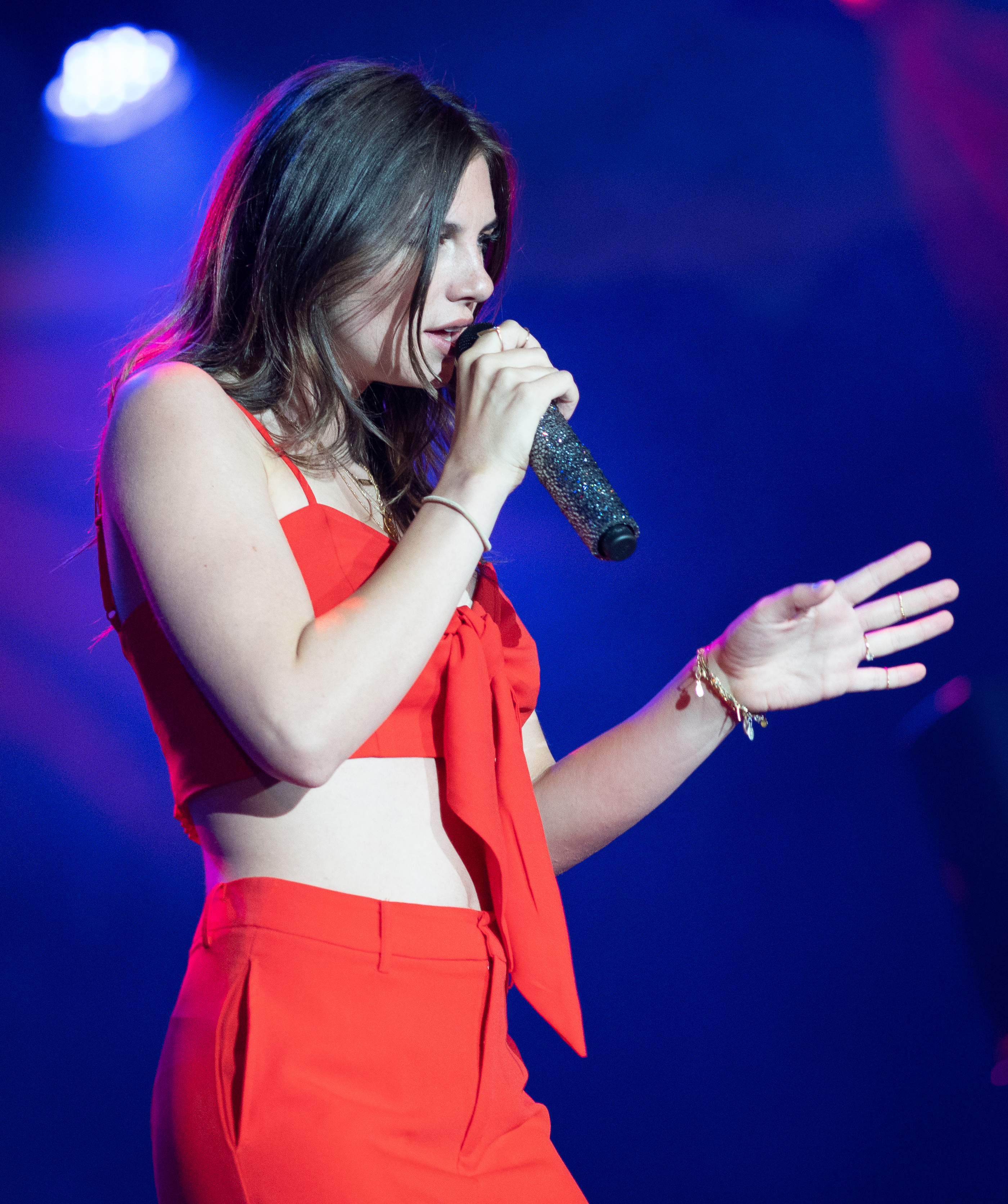 Maan de Steenwinkel optreden Night of the Koemarkt 2018